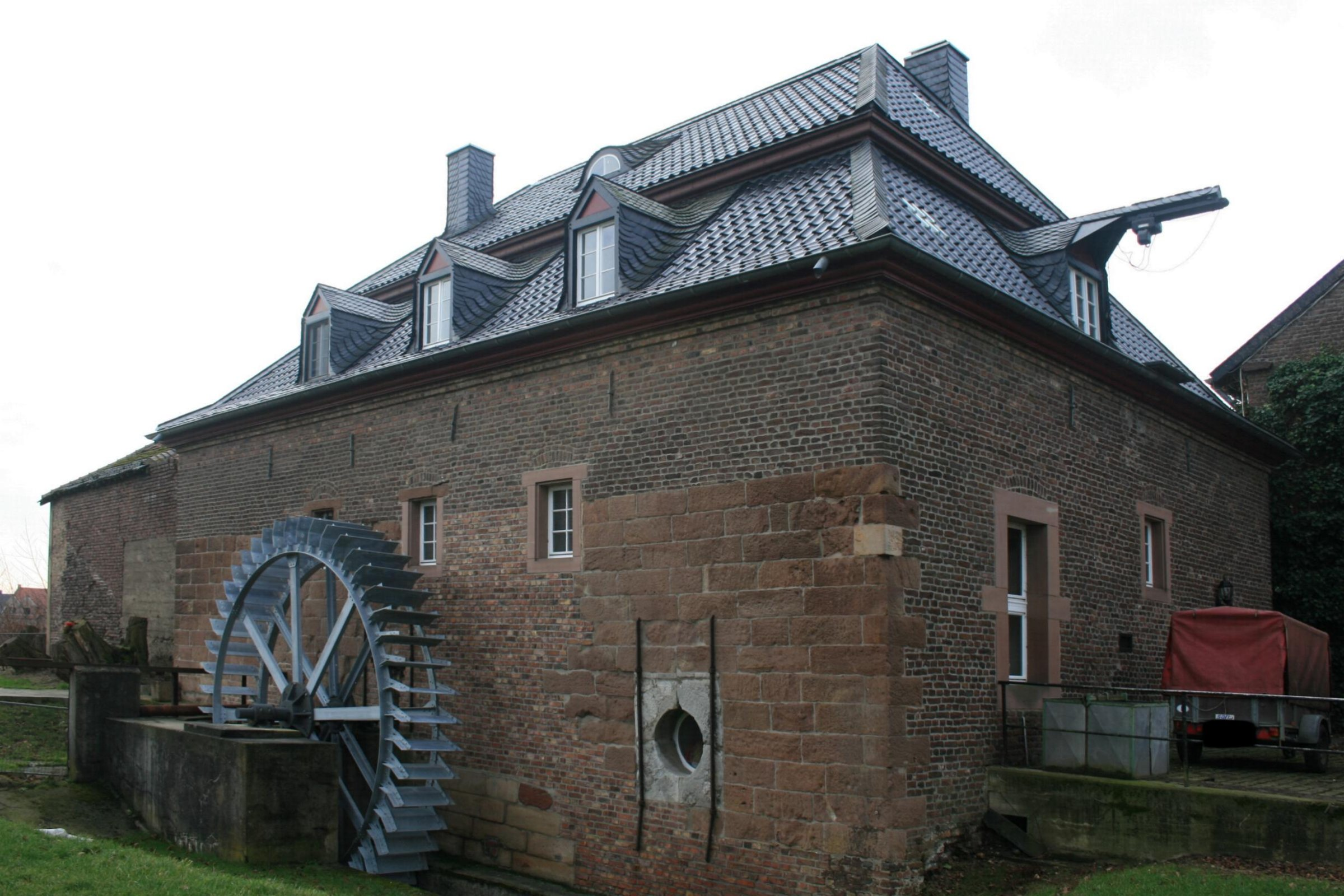 Cultural heritage monument No. 39 in Inden